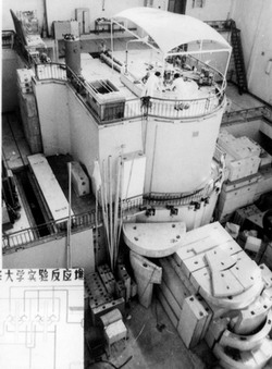 The Experimental Reactor in Tsinghua University.